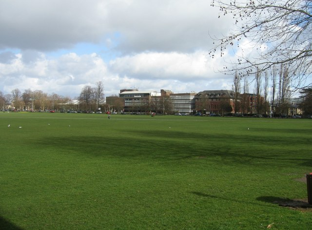 Parker's Piece As seen from Regent Terrace.